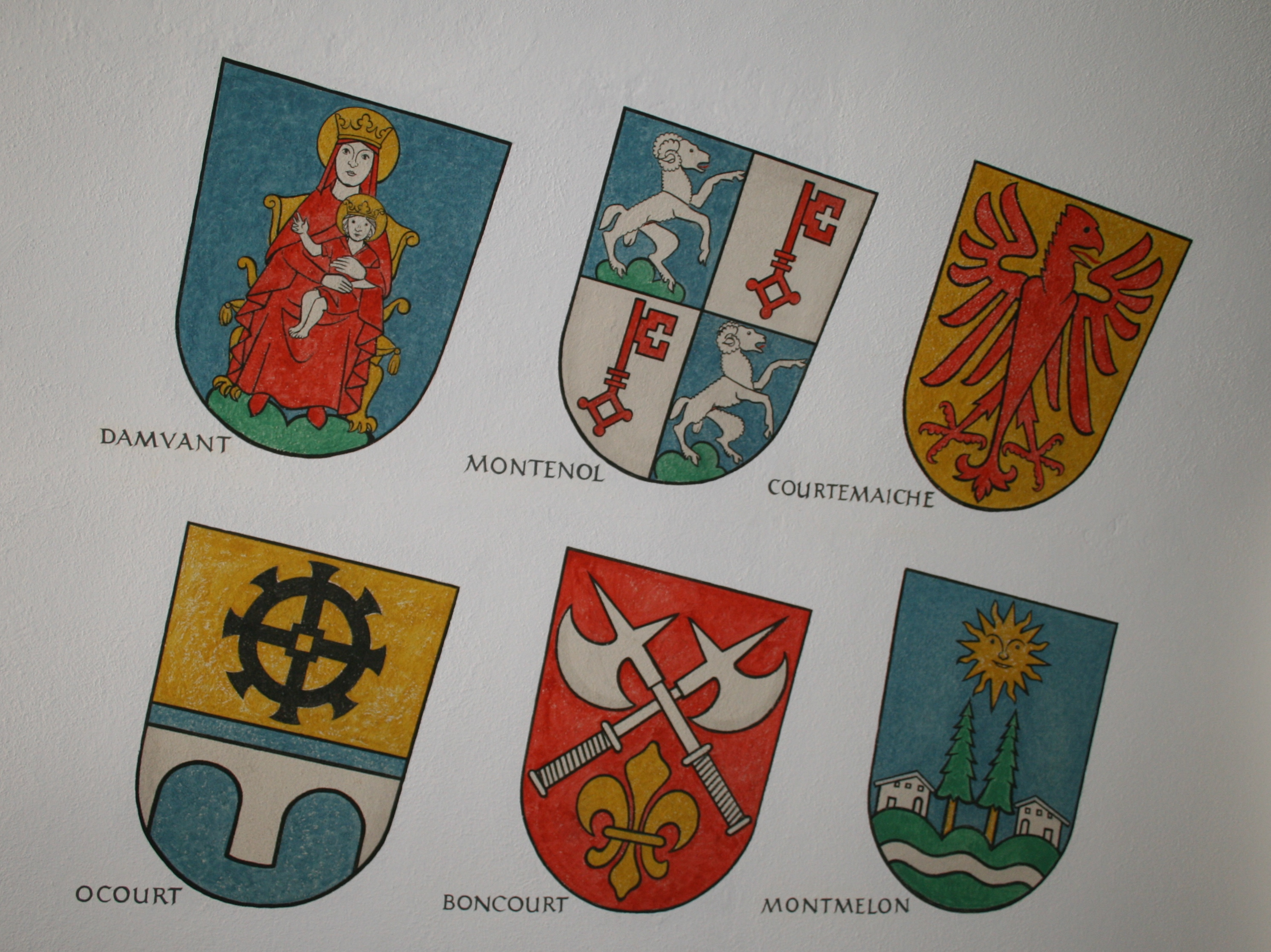 The Coa of 6 municipalities in canton of Jura, Switzerland